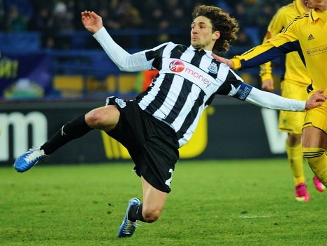 Fabricio Coloccini